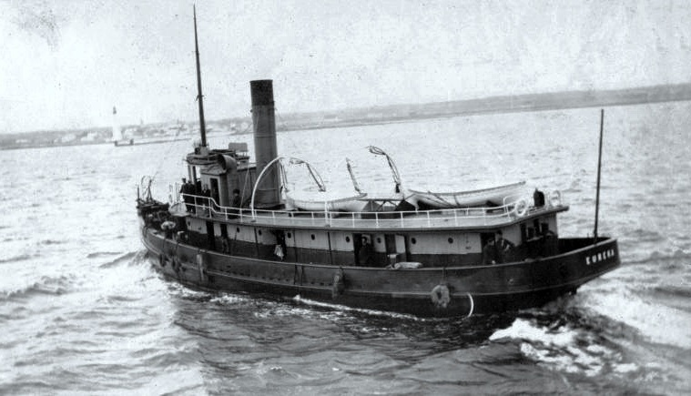 Photograph, Pilot boat at Pointe-au-Père, QC, 1909, Hugh A. Peck, Silver salts - Gelatin silver process - 7.8 x 13.2 cm